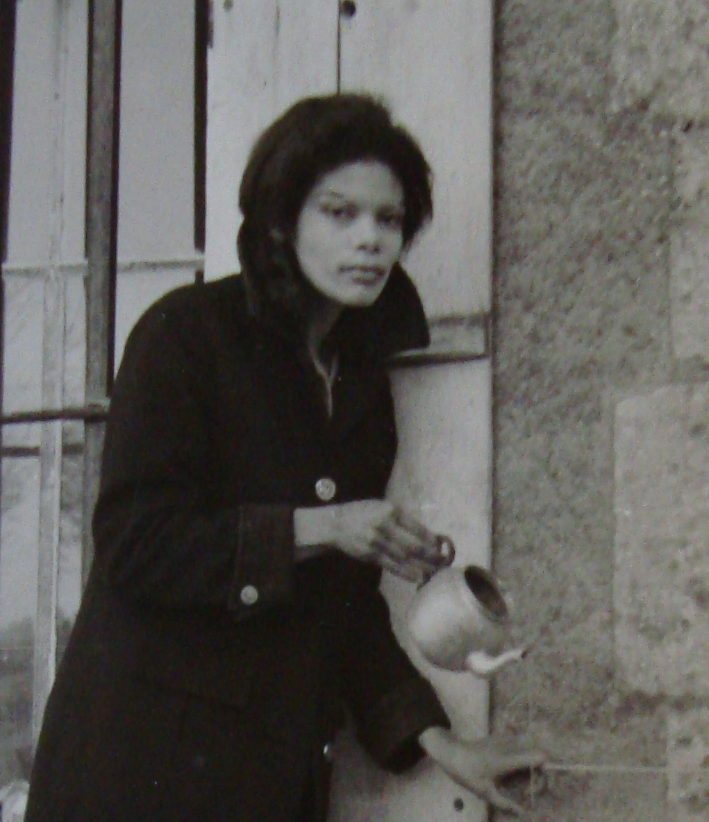 Hessie in Hérouval in the late 60's